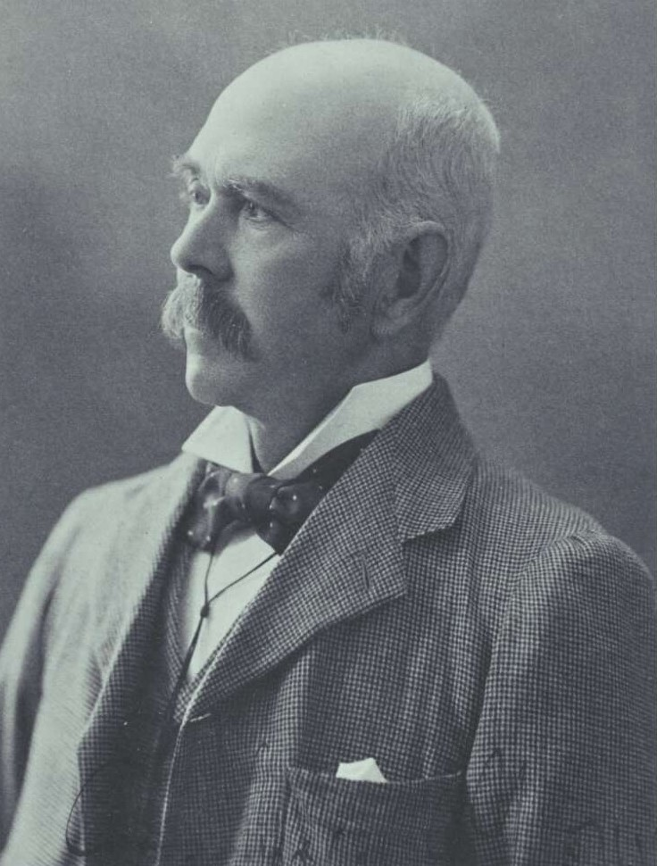 Josiah Symon From the 1898 Australasian Federal Convention Album.